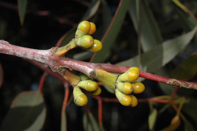 Flower buds of Eucalyptus stricklandii in the Australian national Botanic Gardens